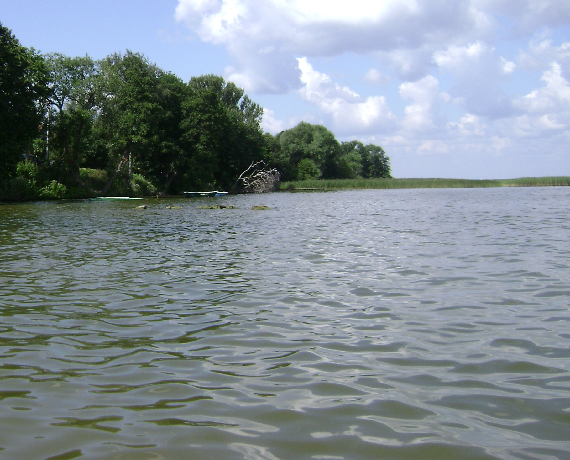 Poland. Gmina Ruciane-Nida. Niedźwiedzi Róg Village. Śniardwy Lake, Pajęcza Island and Czarci Ostrów Island